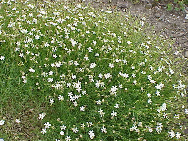 Species: Silene saxifraga Family: Caryophyllaceae Image No. 4